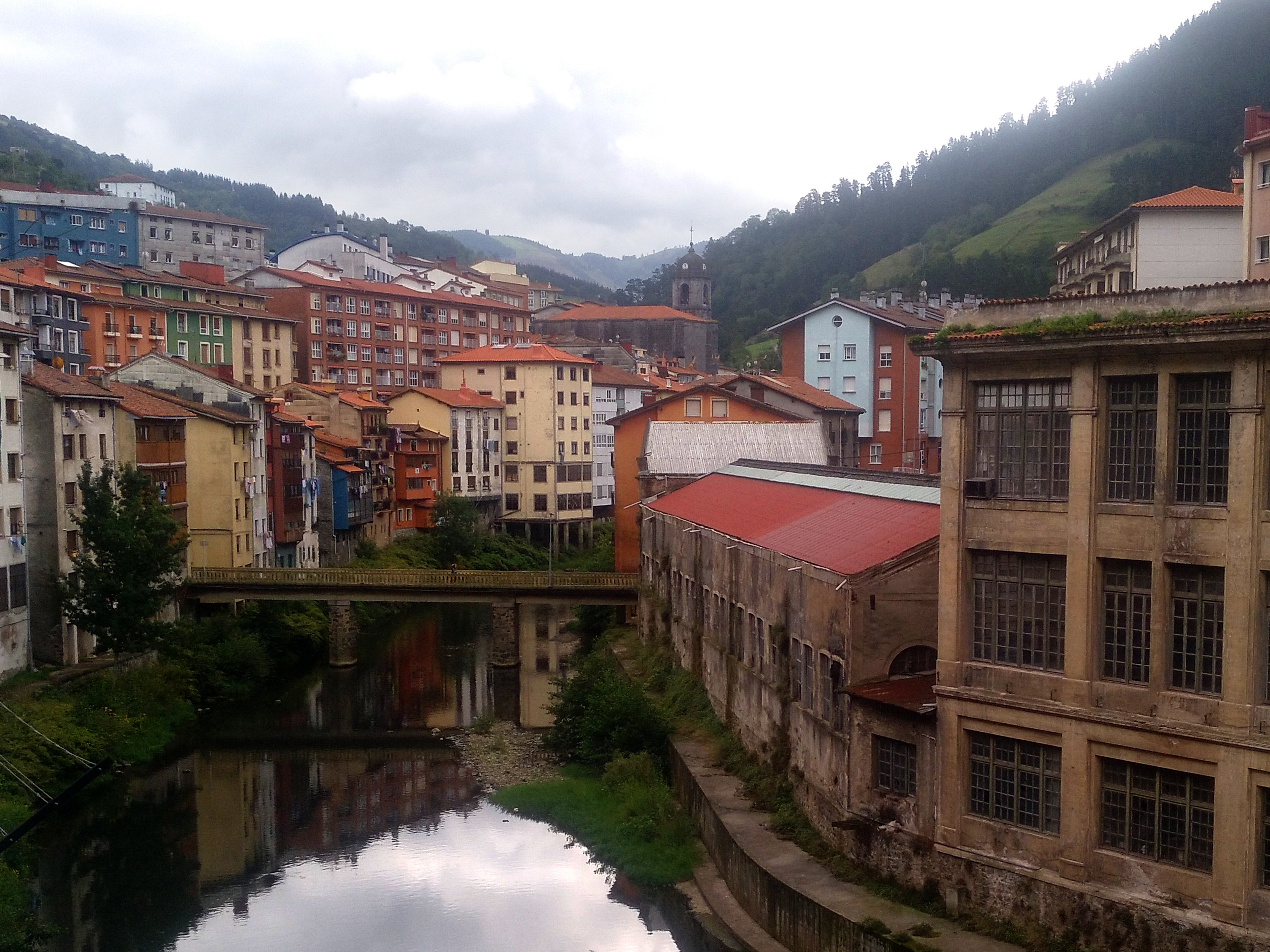 River Deba crossing Soraluze